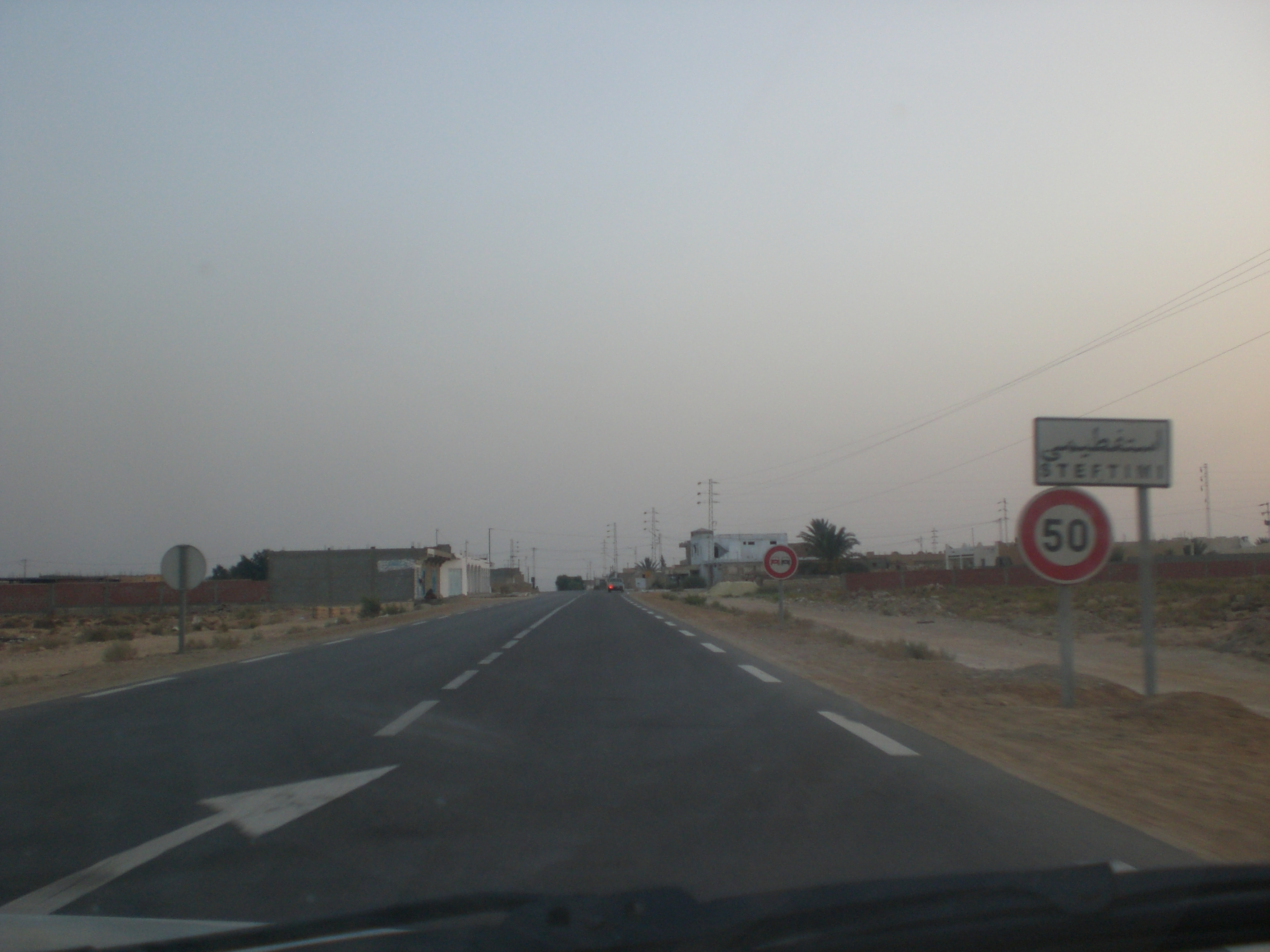 Steftimi a Tunisian village